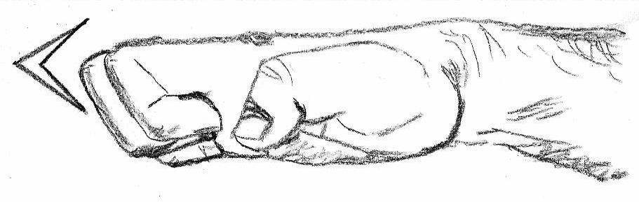 Karate techniques: Hiraken